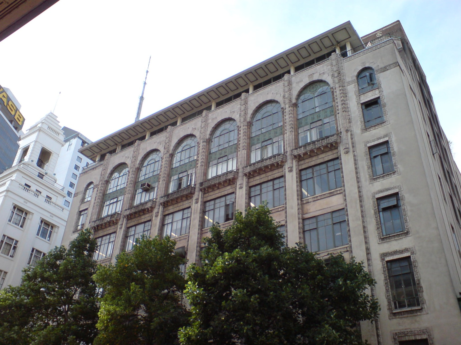 The Smith & Caughey's department store building in Queen Street, Auckland City, New Zealand. Looking north on the south facade. New Zealand Historic Places Trust Register number: 656.